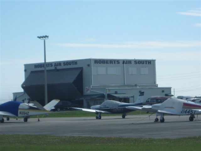 FBO: Roberts Air South, Inc